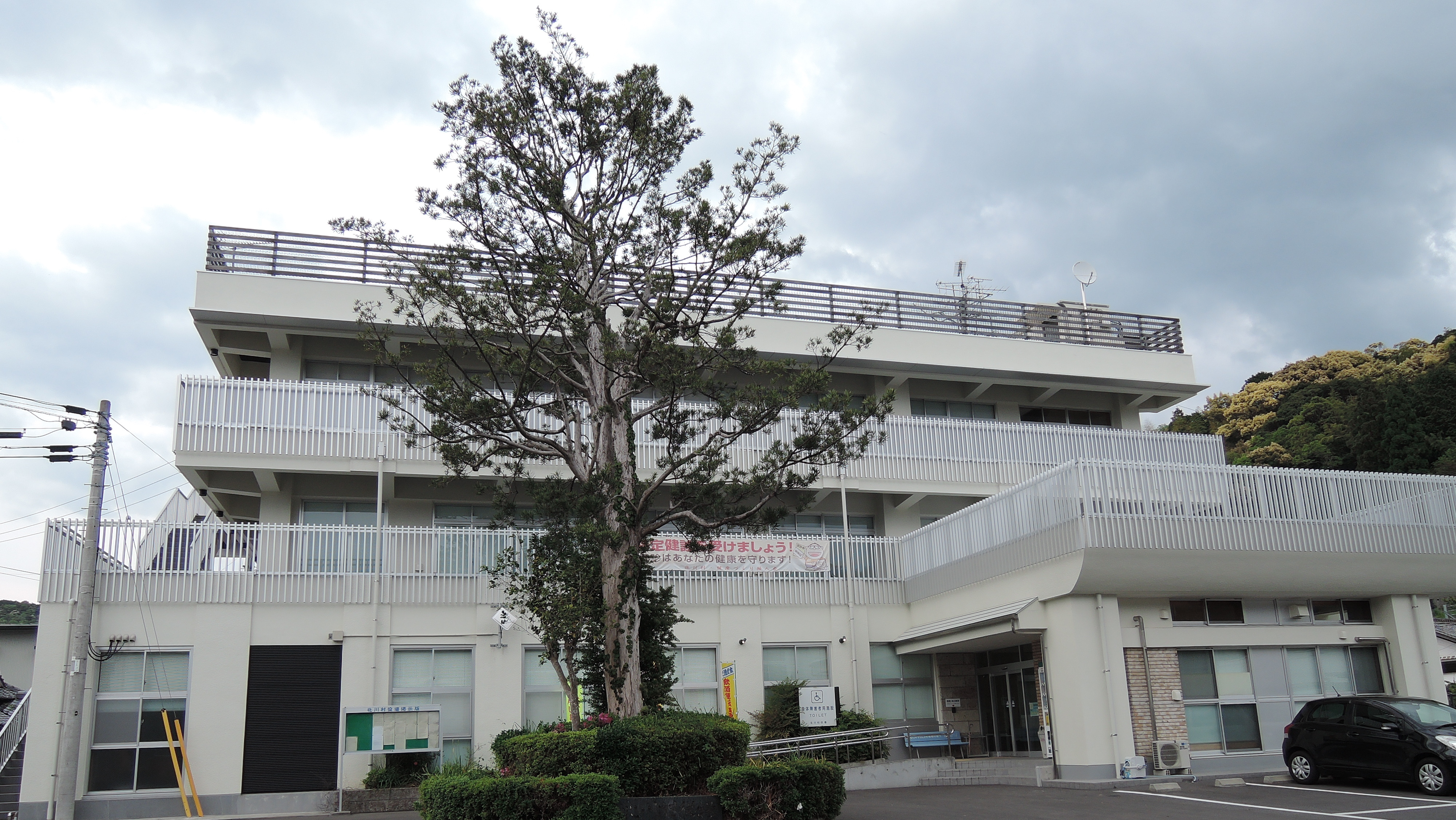 Kitagawa village hall,Kochi prefecture,Japan